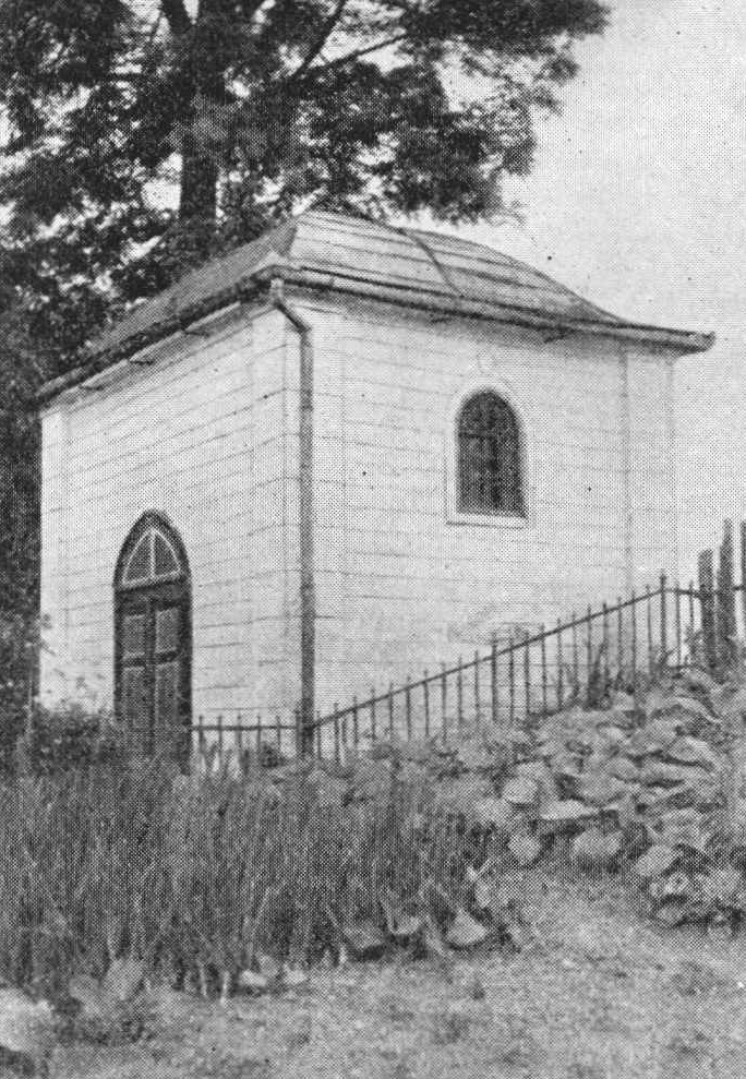 The former turbe (mausoleum) of Sheikh Mustafa Gaibi, a 17th-century dervish from Ottoman Bosnia, located until 1954 at Stara Gradiška